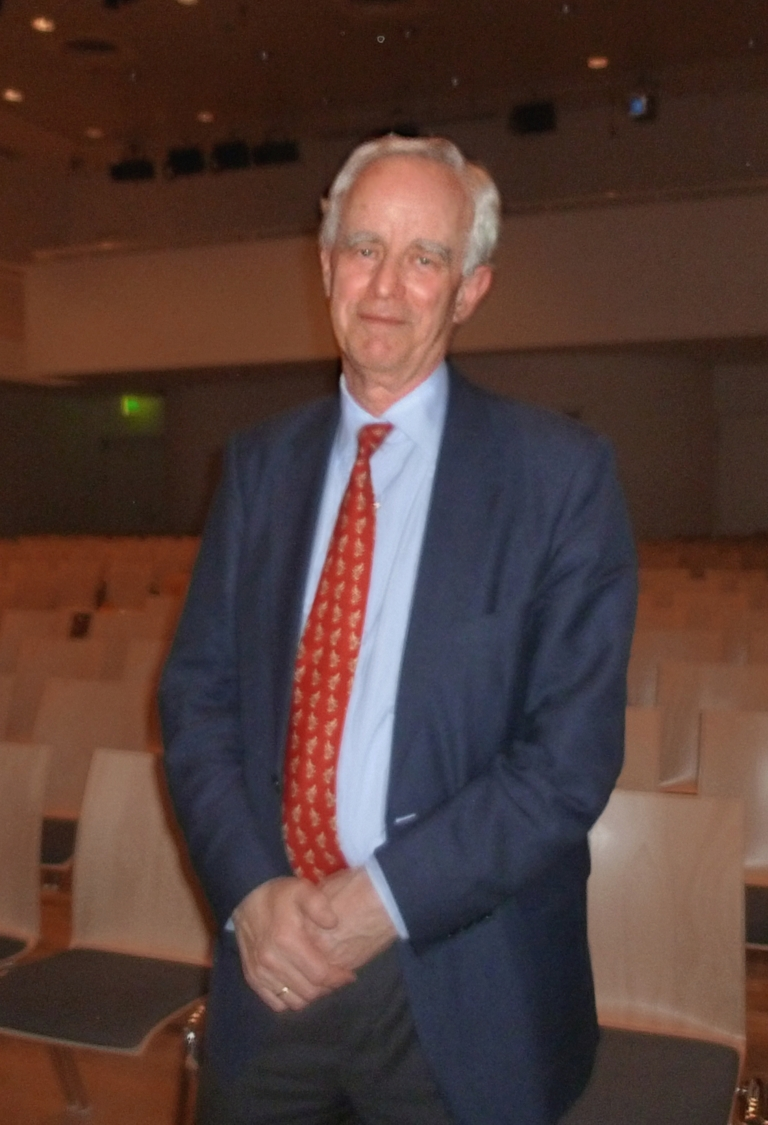 Dr. Pim van Lommel: Dutch cardiologist, author of the book "Eindeloos Bewustzijn". The photo depicts him after a speech in Ulm (at the Stadthalle) at 22nd February 2012 when almost all guests have left. Pim van Lommel has given permission to shoot the photo.